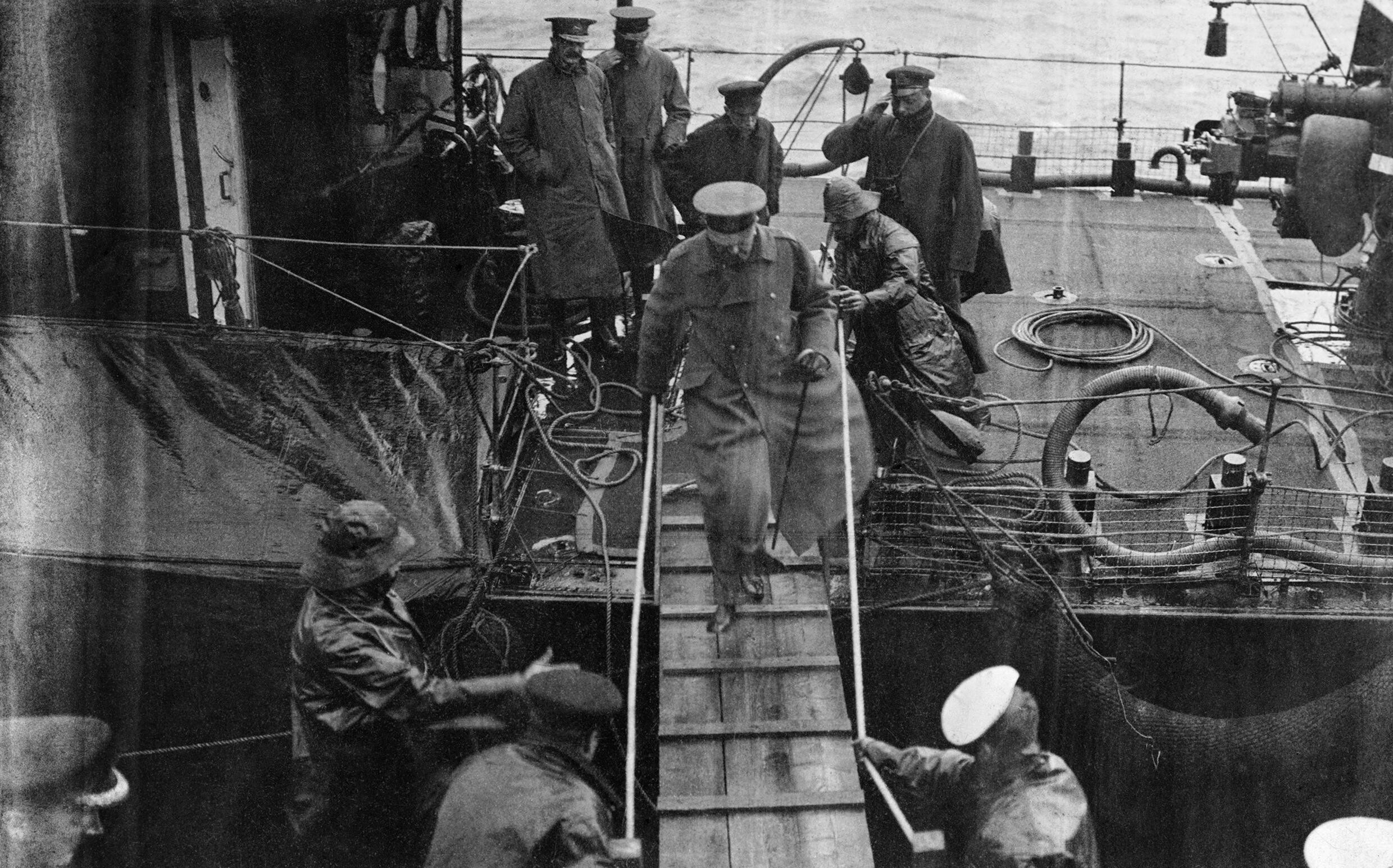 Field Marshal Lord Kitchener boards HMS IRON DUKE from HMS OAK at 12.25pm prior to lunching with Admiral Lord Jellicoe at Scapa Flow on 5 June 1916. This set of photographs is believed the last taken of Kitchener.